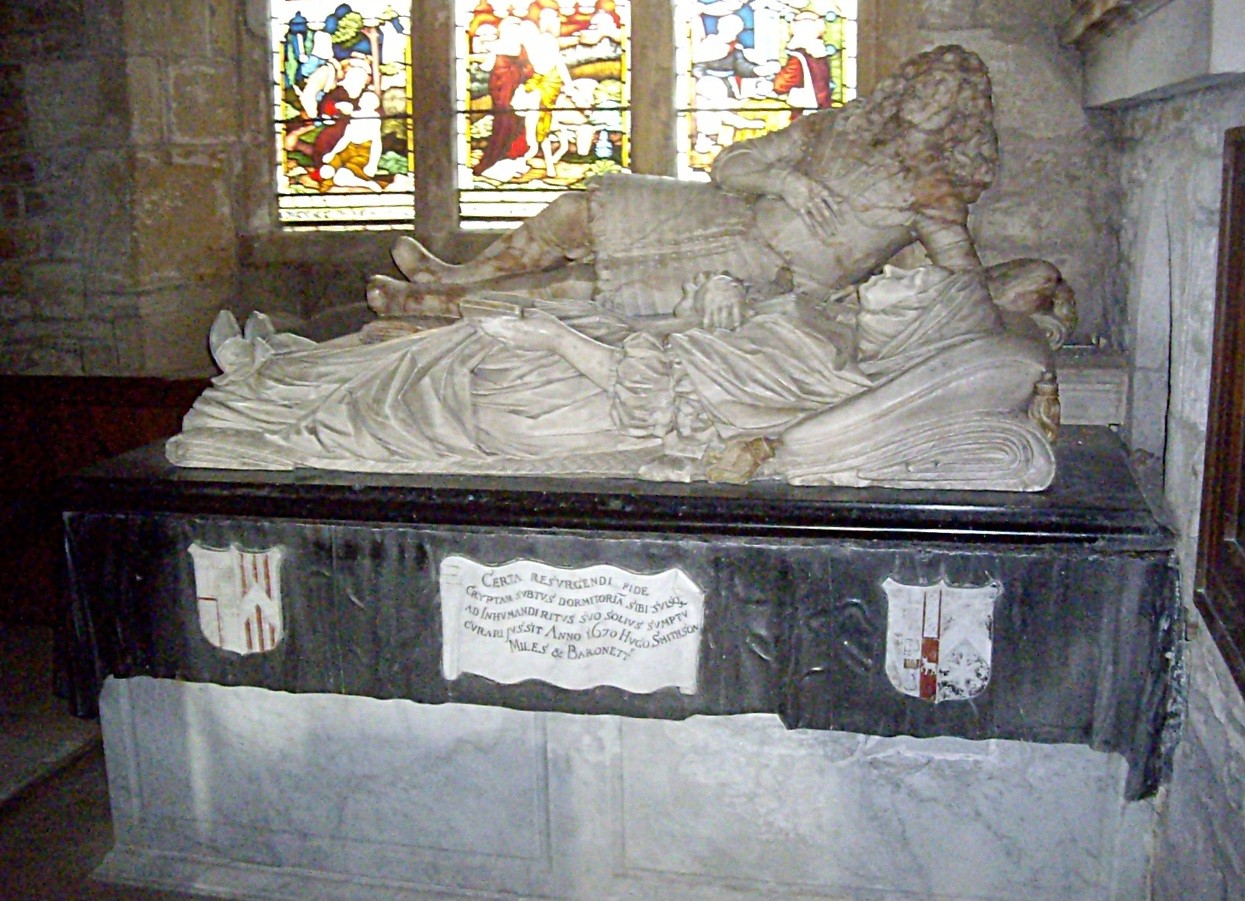 Smithson tomb chest, St John the Baptist church, Stanwick, near to Stanwick-st-John, North Yorkshire, Great Britain. In memorium to Sir Hugh Smithson (1598-1670), and his wife. See Wikipedia:Smithson baronets. Inscribed: Certa resurgendi fide cryptam subtus dormitoria sibi sulso(?) ad inhumandi ritus suo solius sumptu curari jussit Anno 1670 Hugo Smithson Miles et Baronett ("In certain faith of rising again, in the year 1670 Hugh Smithson, Knight and Baronet, ordered to be undertaken at his sole expense the rite of burial in the crypt below as his dormitory")